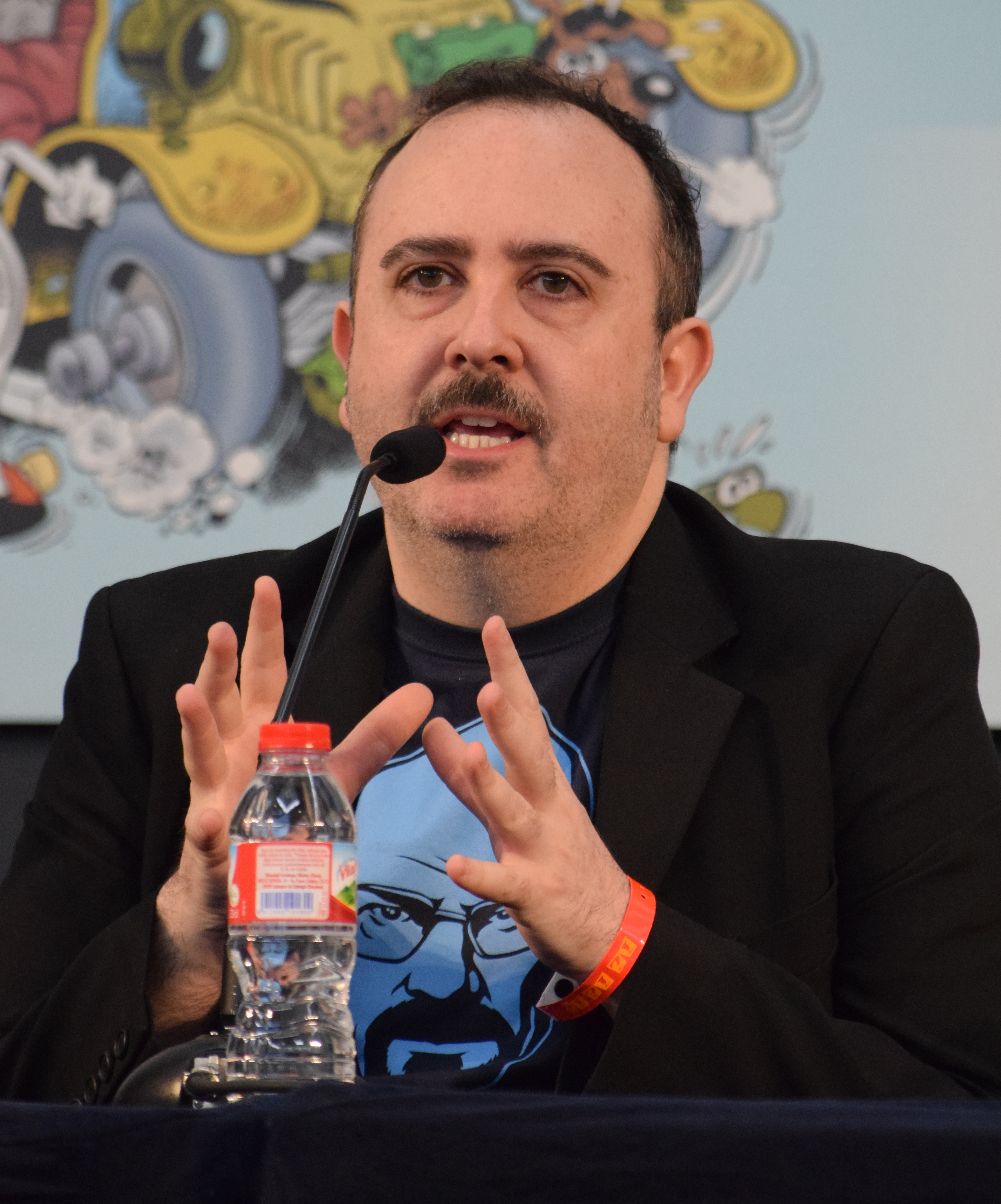 Carlos Areces during the conference Le’ts talk about Ibáñez during the Barcelona International Comic Convention. The other speakers where Kiko da Silva and "Joso" with Vicent Sanchis as moderator. Friday 6 de may of 2016